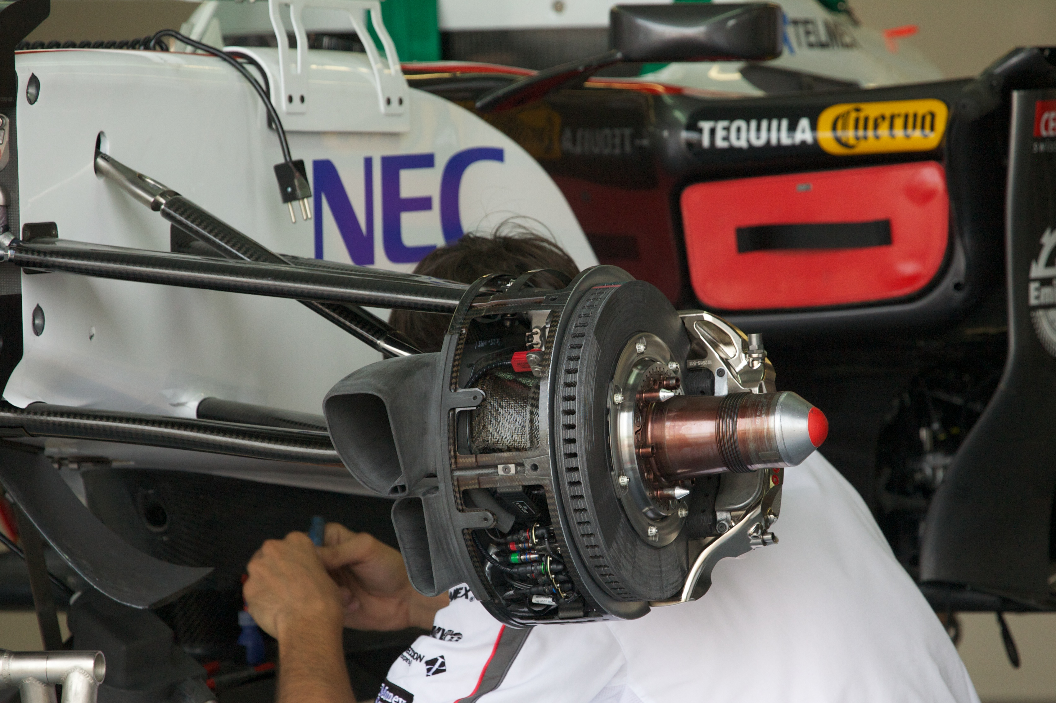 2011 Canadian Grand Prix